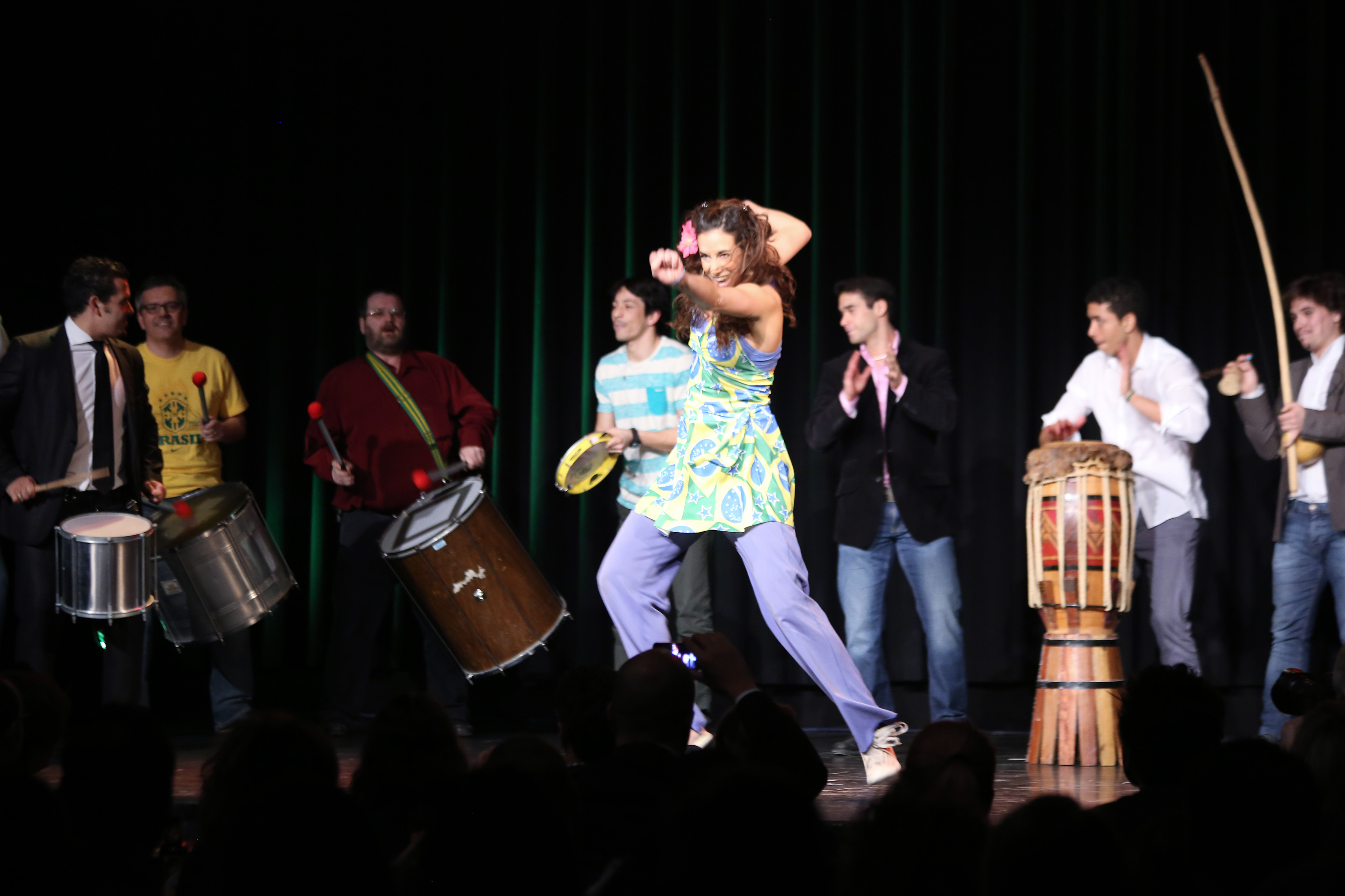 Nina Hartmann, premiere of her second comedy program 'Brasil' at Orpheum in Vienna, Austria.